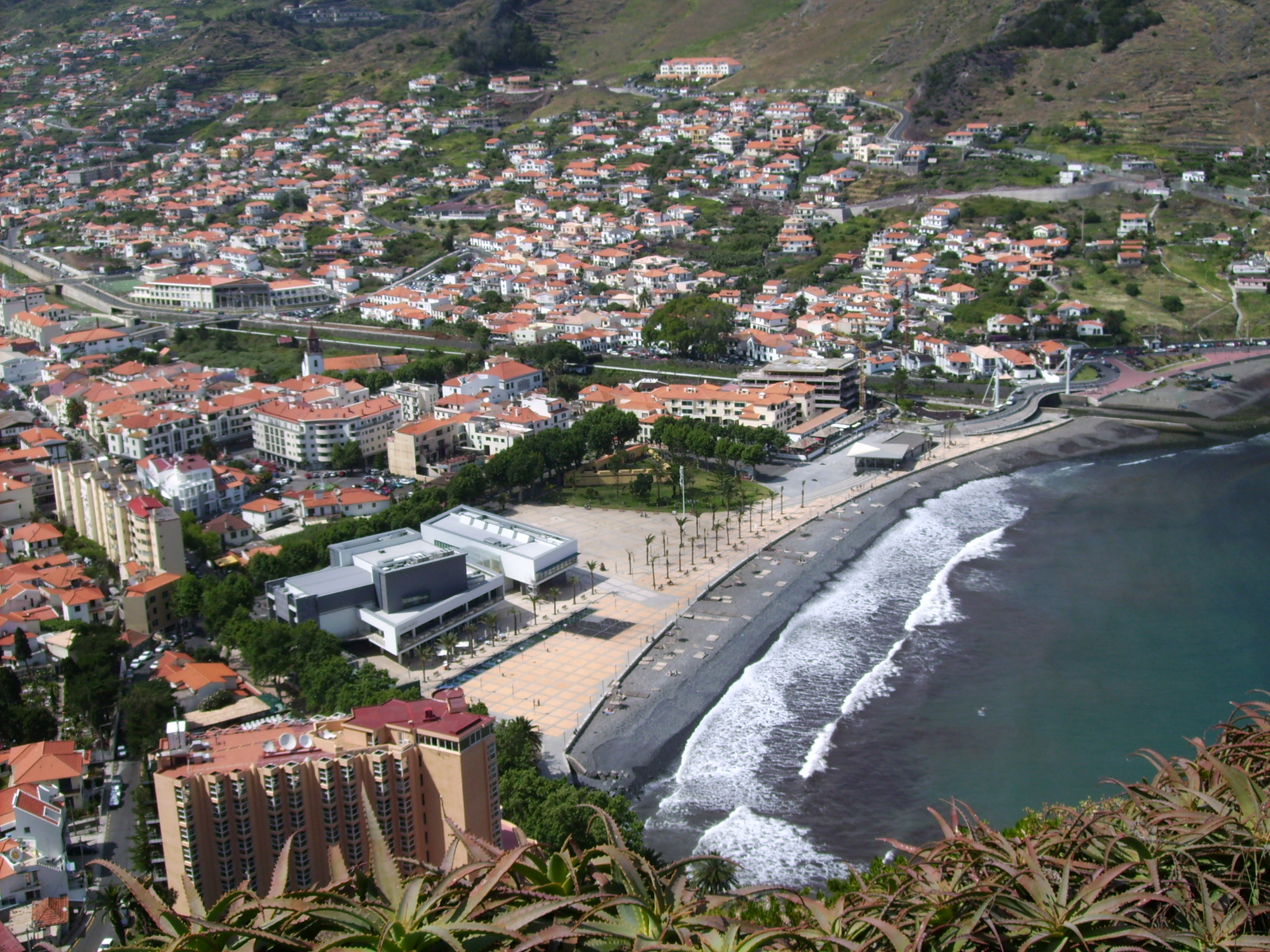 View to Machico in Madeira, Blick auf Machico in Madeira